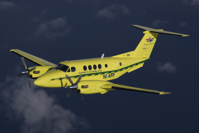 Beechcraft Super King Air plane, operated by Svensk Flygambulans AB